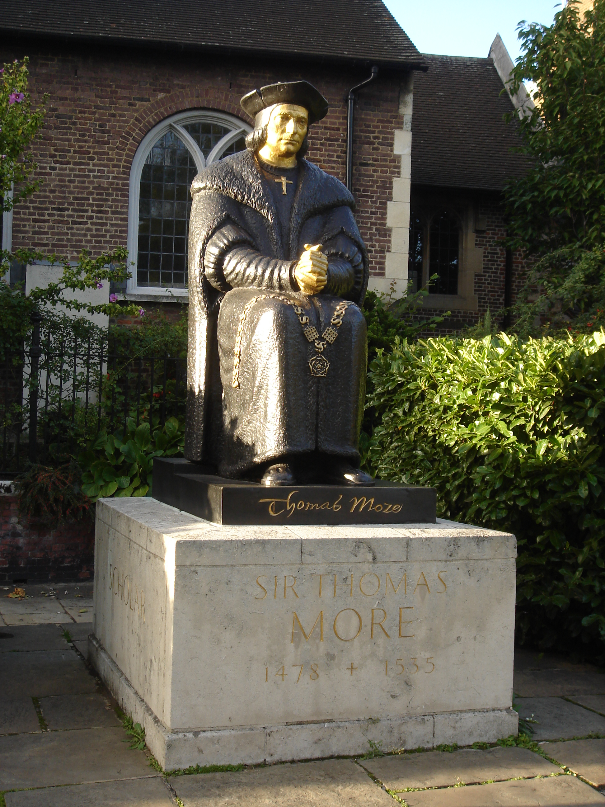 Chelsea Old Church (all Saints)